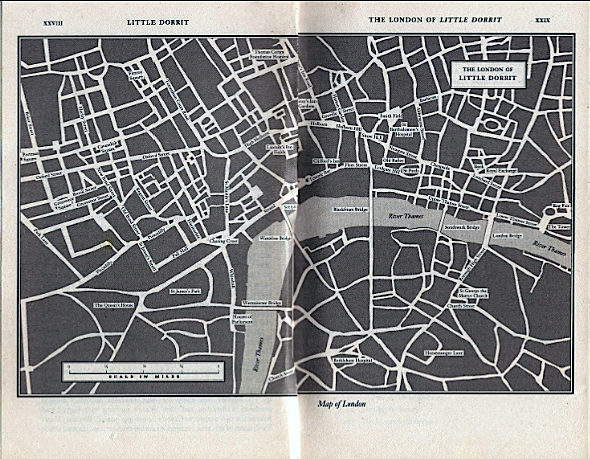 Map of Little Dorrit's London